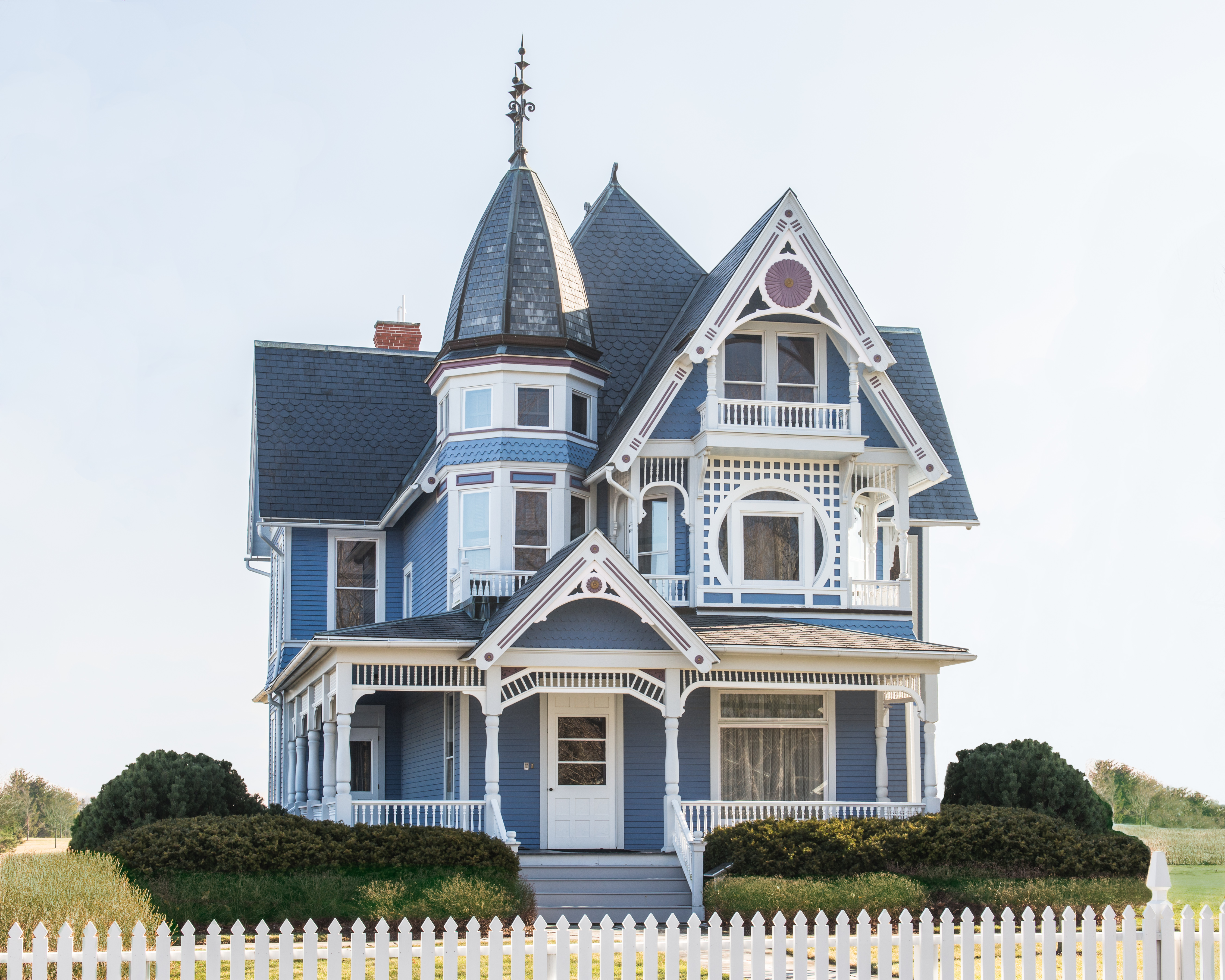 This is a photo of the Adolph Boesel House at its current site at 400 Easthaven in New Bremen, Ohio. The house was relocated from its original site in 1986.